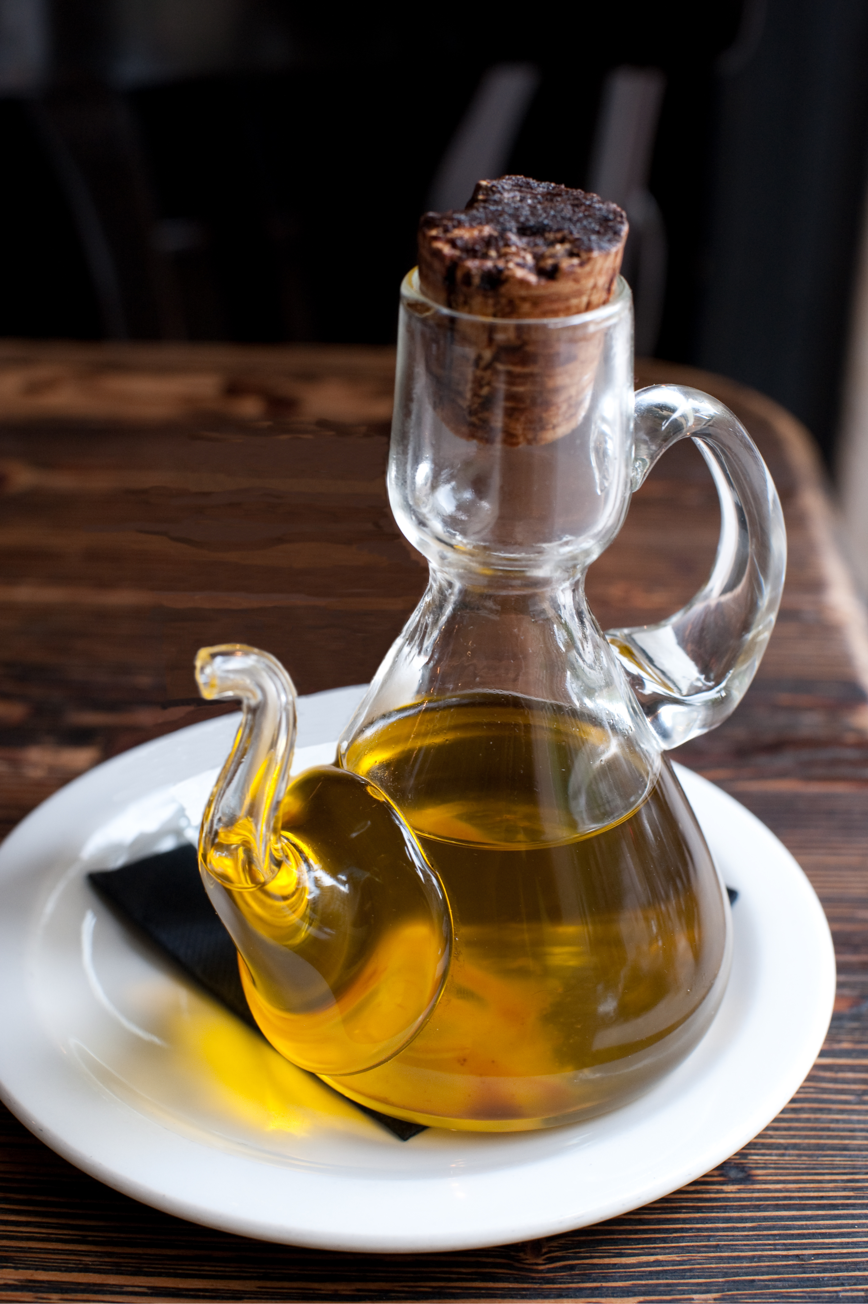 olive oil.